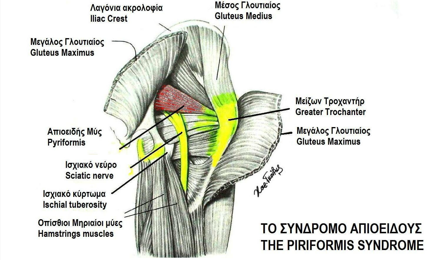 Piriformis syndrome